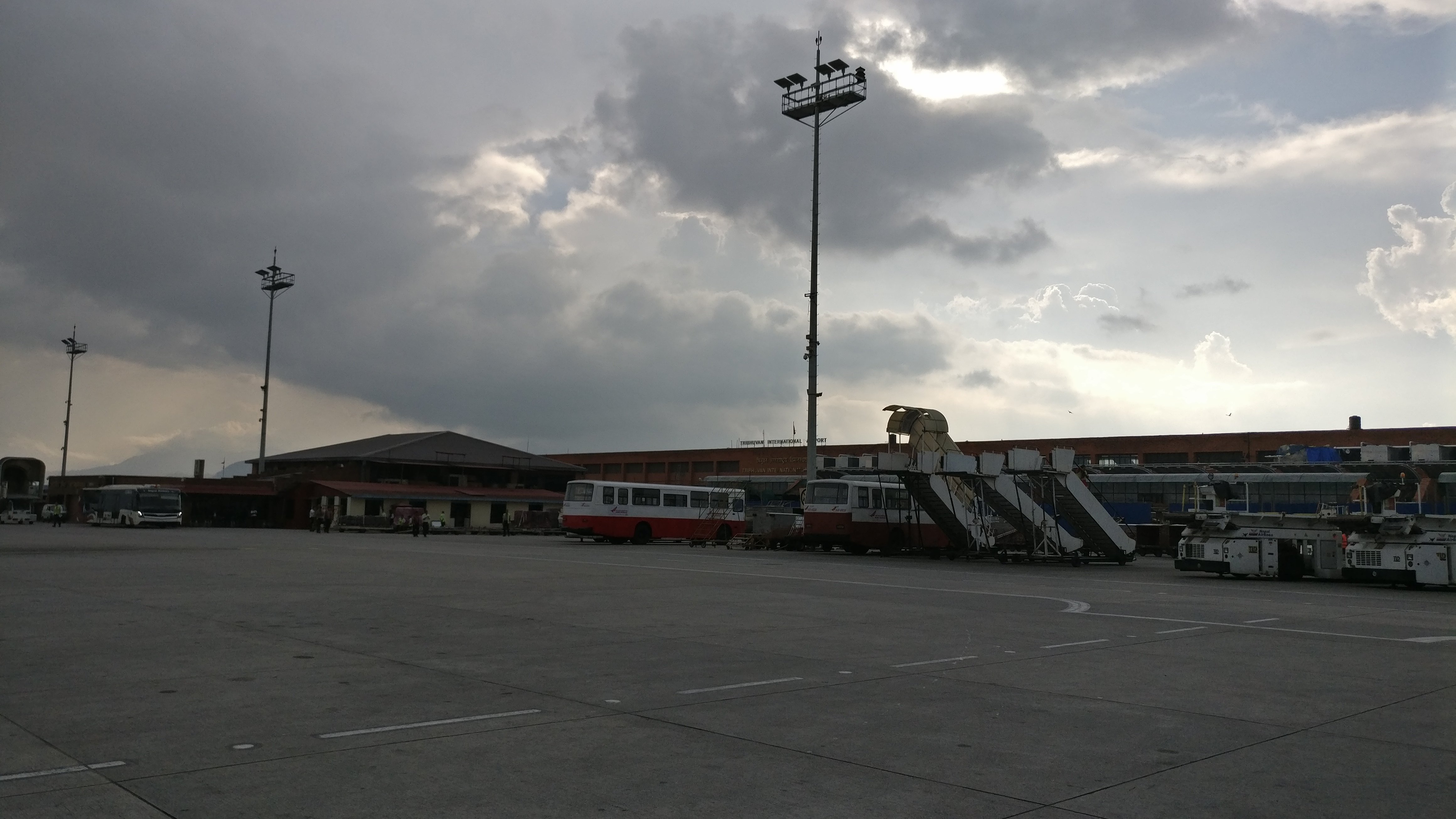 An evening view of Tribhuvan International Airport visible from the boarding area ಕನ್ನಡ: ತ್ರಿಭುವನ್ ಅಂತರಾಶ್ಟ್ರಿಯ ವಿಮಾನಕ್ಷೇತ್ರ